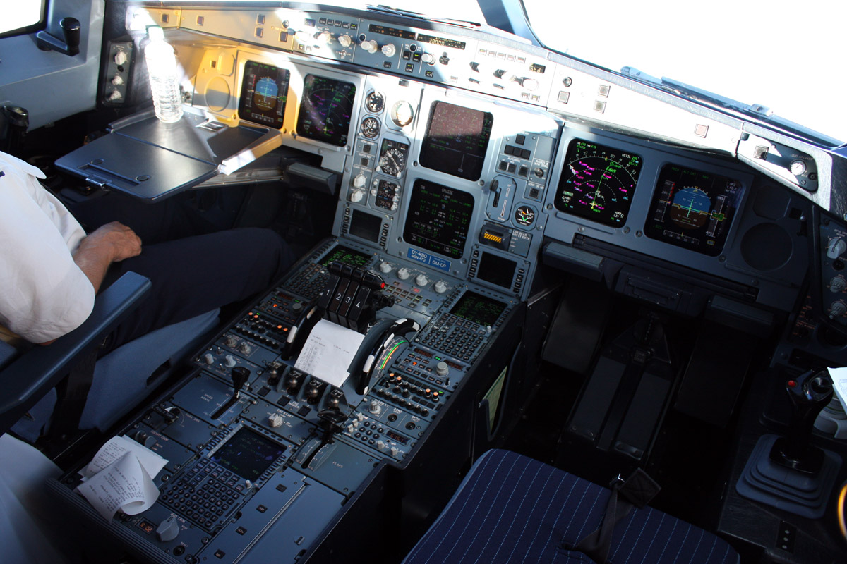 The cockpit of the Airbus A340